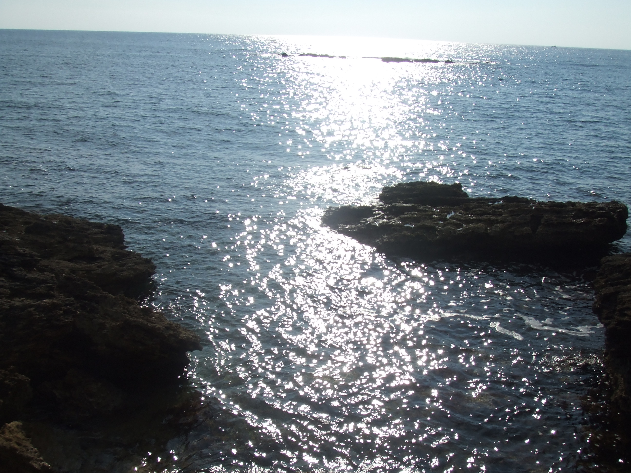 The "Kounopetra" at the south end of the Akrotiri-Peninsula near Lixouri/Greece. Photo: Christos V.